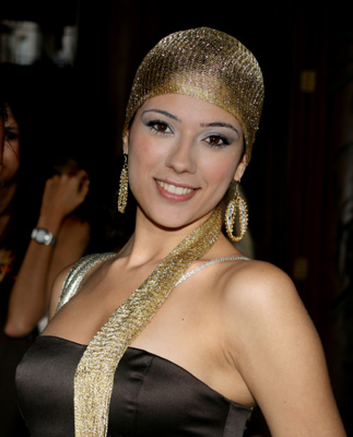 Miss Lebanon 2007 Nadine Njeim in Miss World 07, Sanya, China